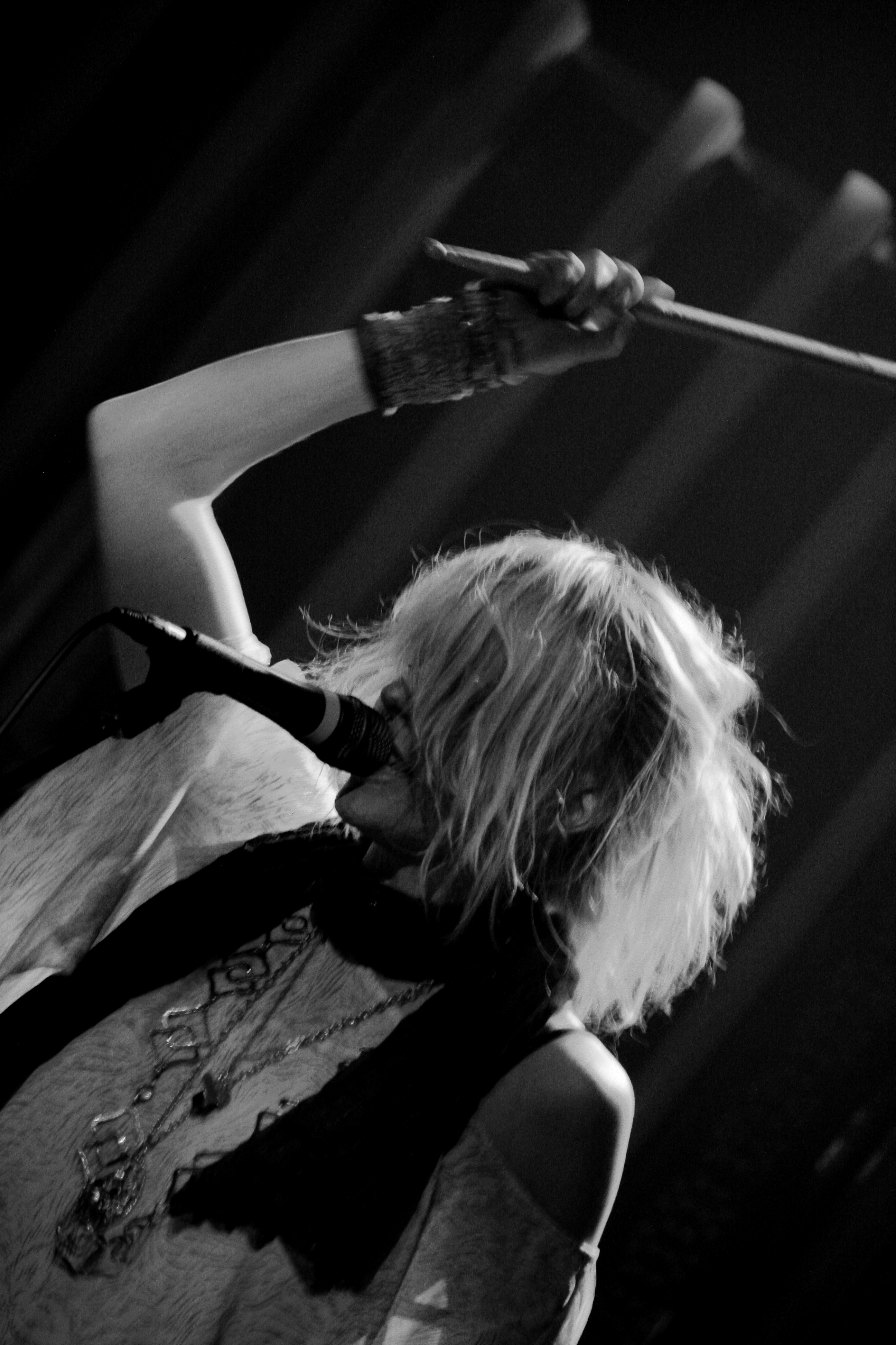 The Golden Filter, taken at the Presets